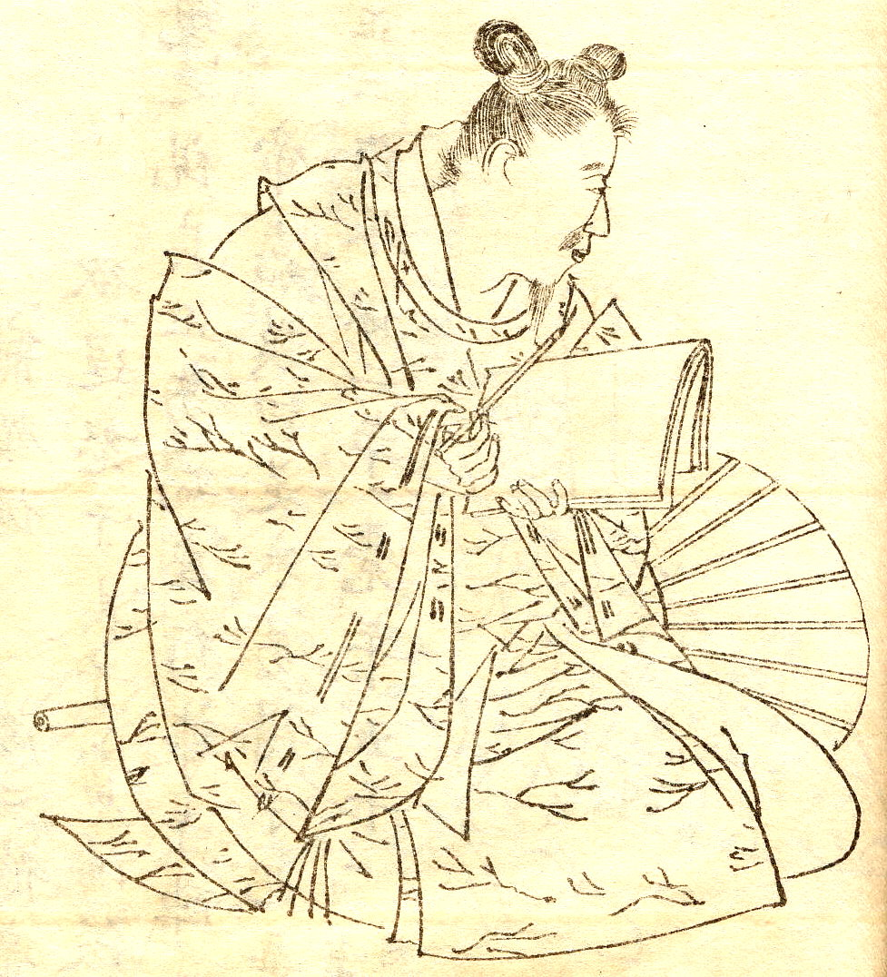 Minamoto no Takakuni(源隆國) was a japanese court noble in Heian period.